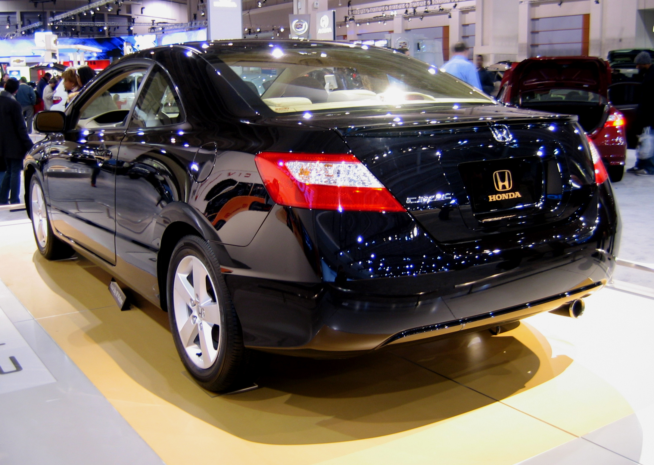 2006 Honda Civic EX coupe. Photo by User:AudeVivere, taken at the 2006 Washington Auto Show.